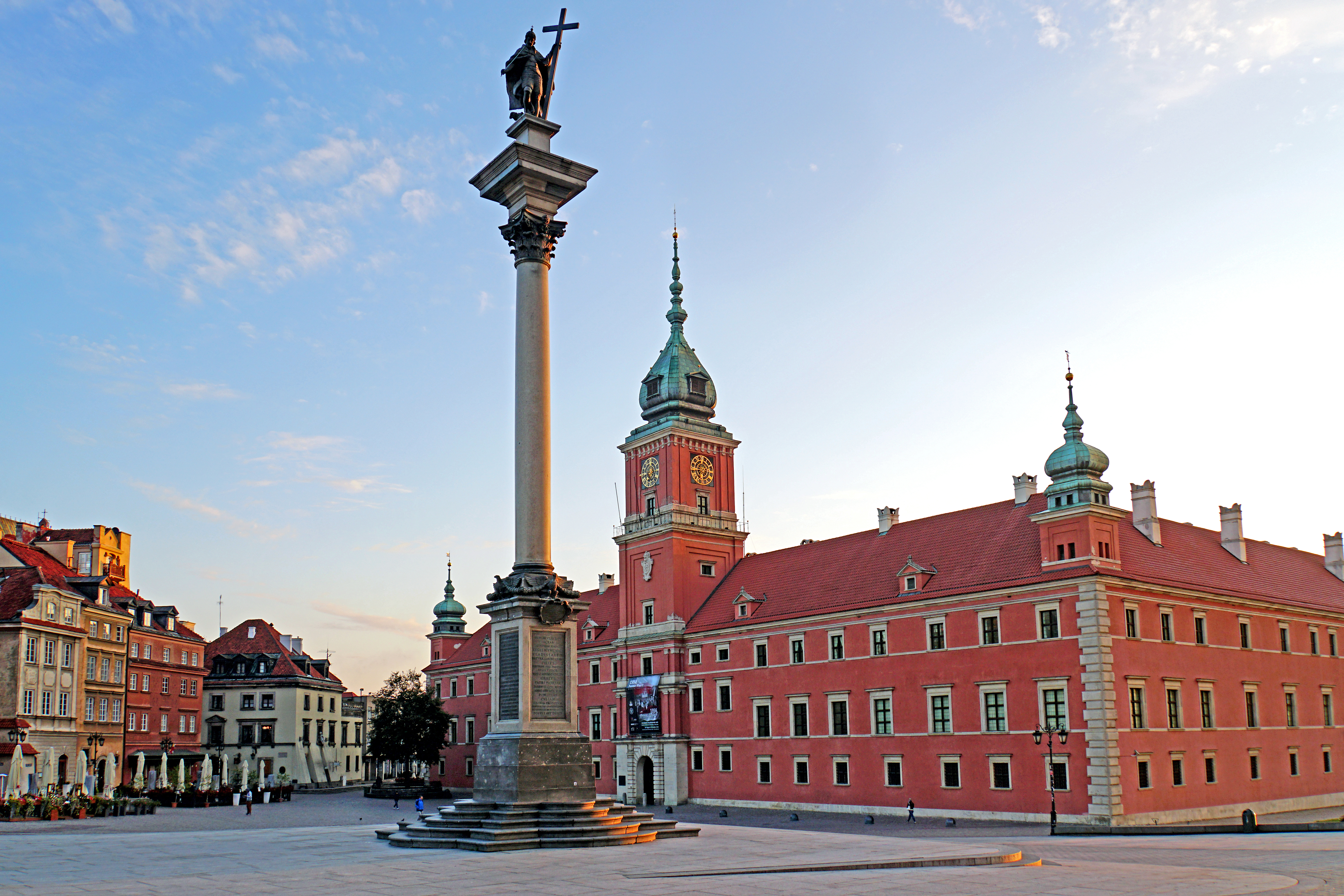 Castle Square used to belong to the king. The buildings around it were created at the time when the Castle was extended, during the reign of King Zygmunt III Waza. This Baroque monument is unique in Europe, as it departs from the traditional model of a ruler’s monument. The sculpture of King Zygmunt III Waza is 2.75 meters (9ft) high, in archaistic armour. The column’s height, including its pedestal, is 22 meters (72ft).